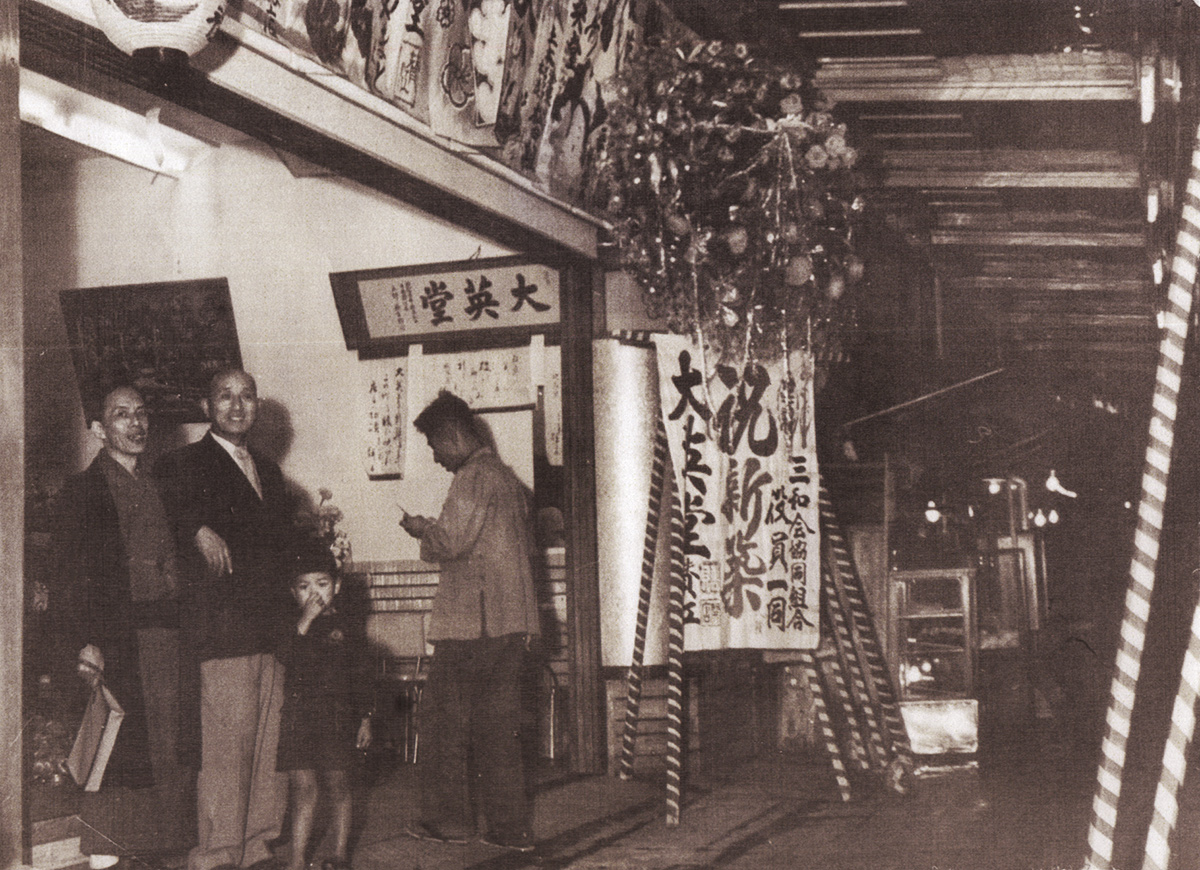 Sangenjaya Taieido Bakery 1952 / Taishido,Tokyo